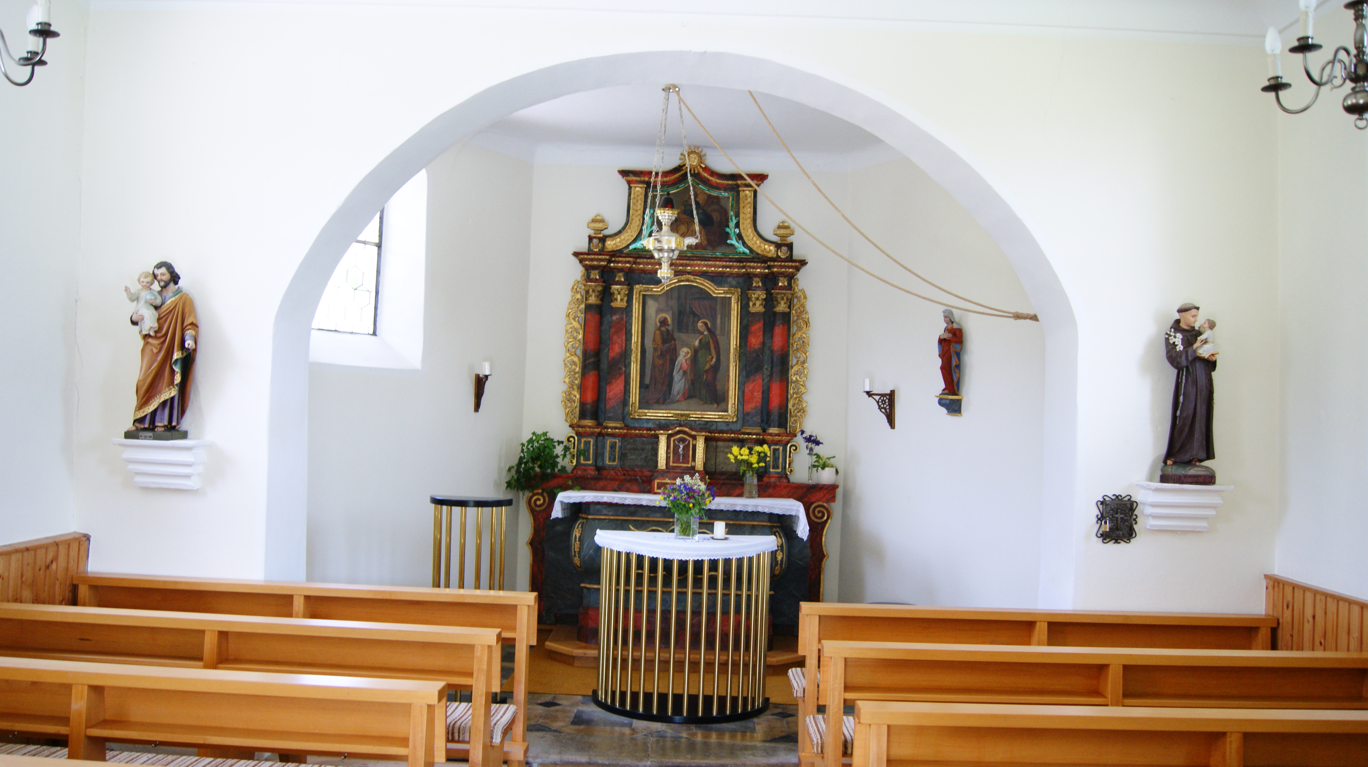 Chapel Maria Sacrifice in Amerlügen, Frastanz, Vorarlberg, Austria. View to the Altar.